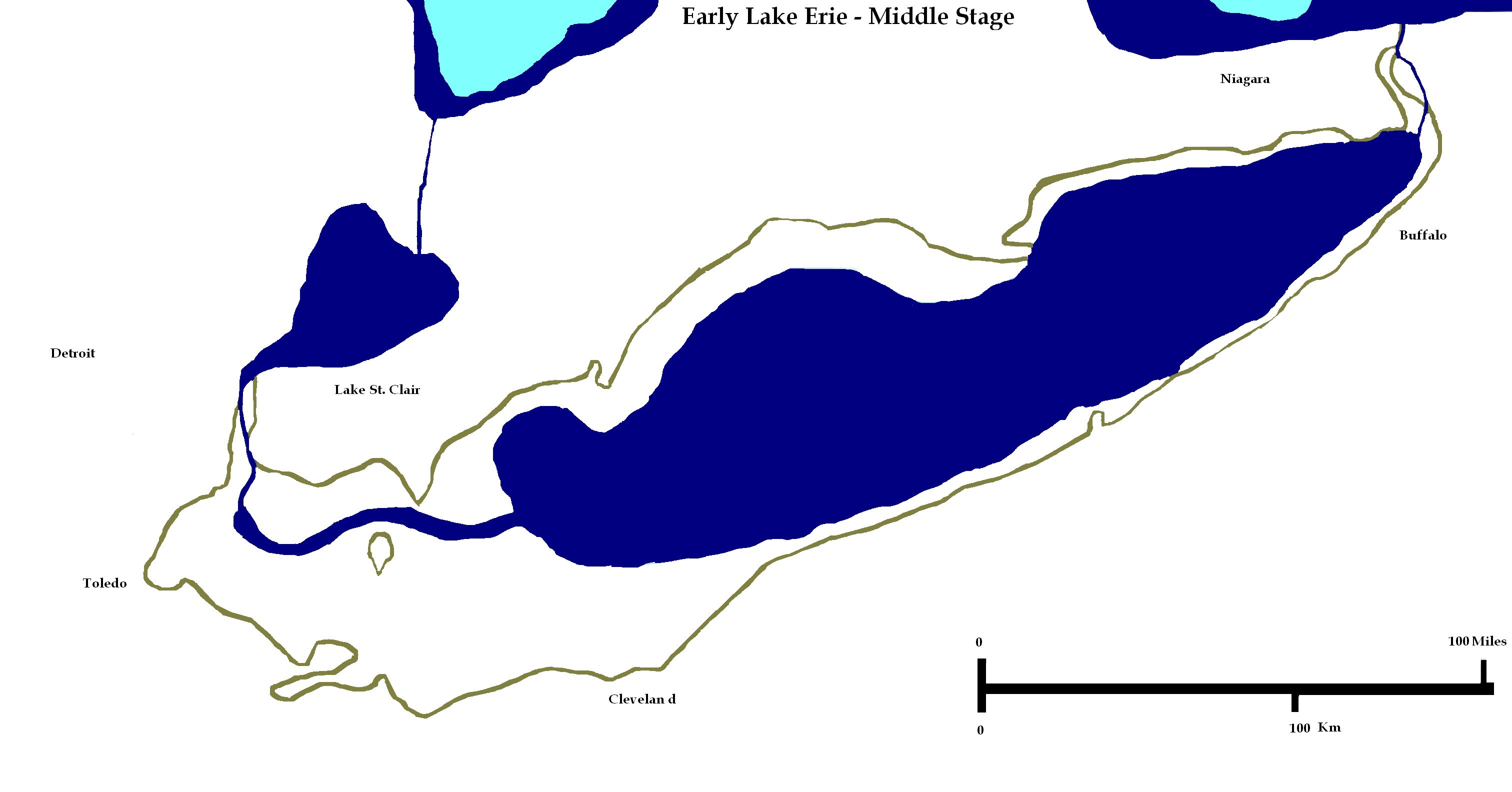 Middle Stage of Early Lake Erie, based on Research overview: Holocene development of Lake Erie; Charles E. Herdendorf, 2013